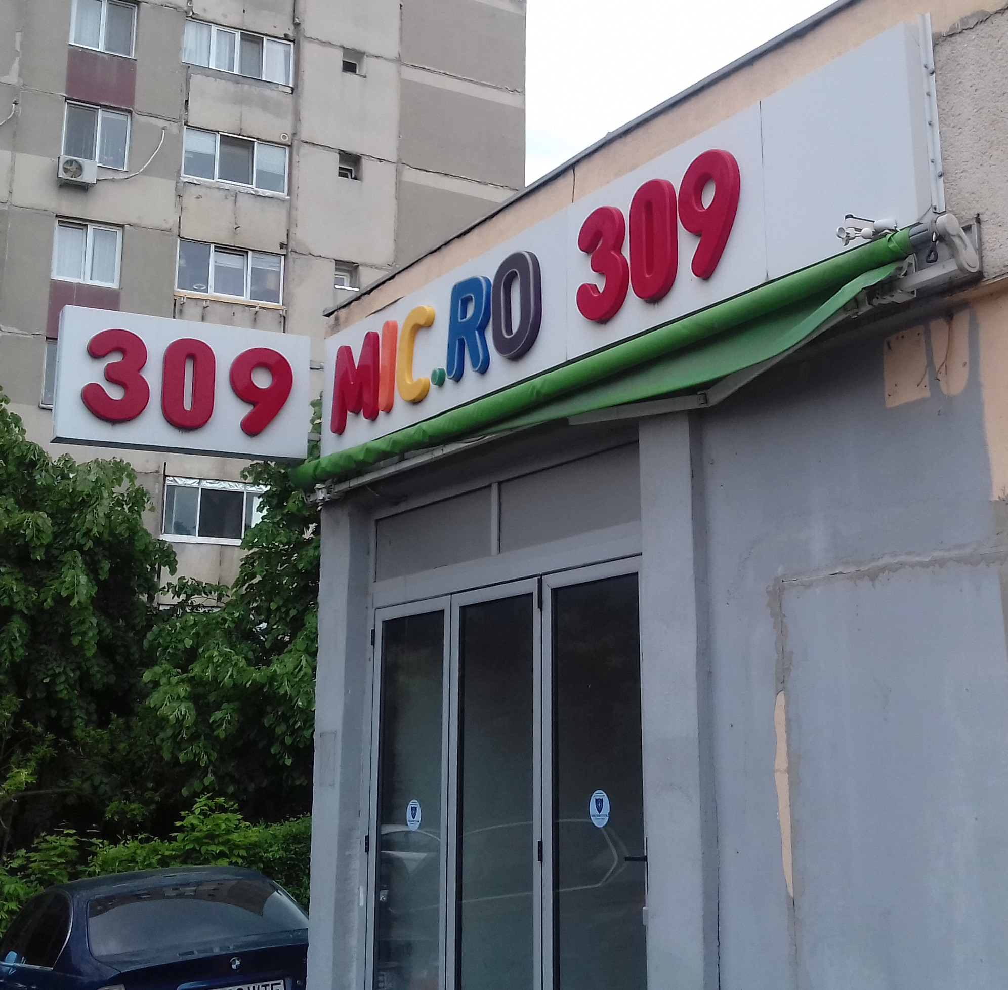 A Mic.ro Shop in Bucharest